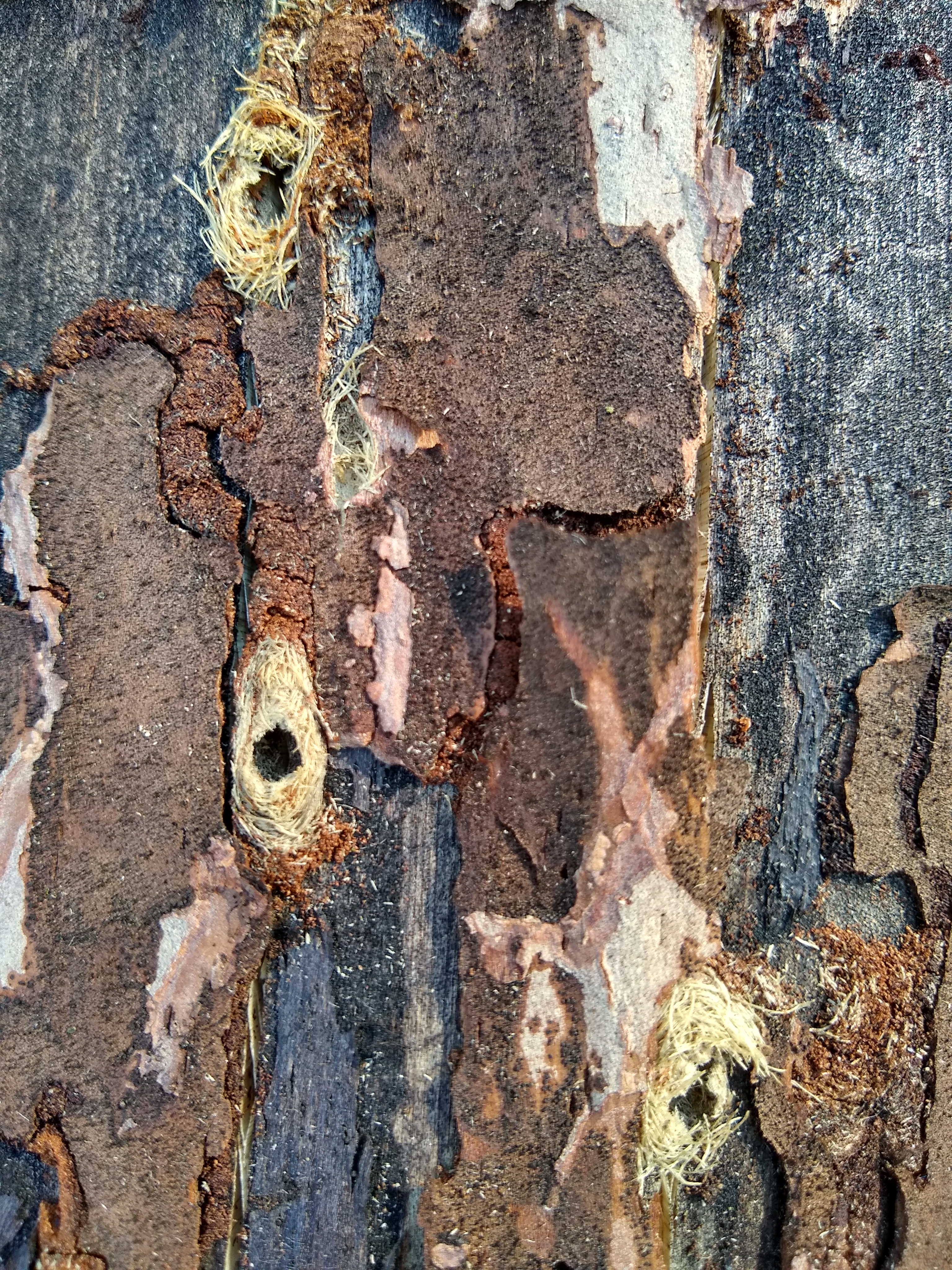 Phaenops cyanea - pine wood damages by larvae